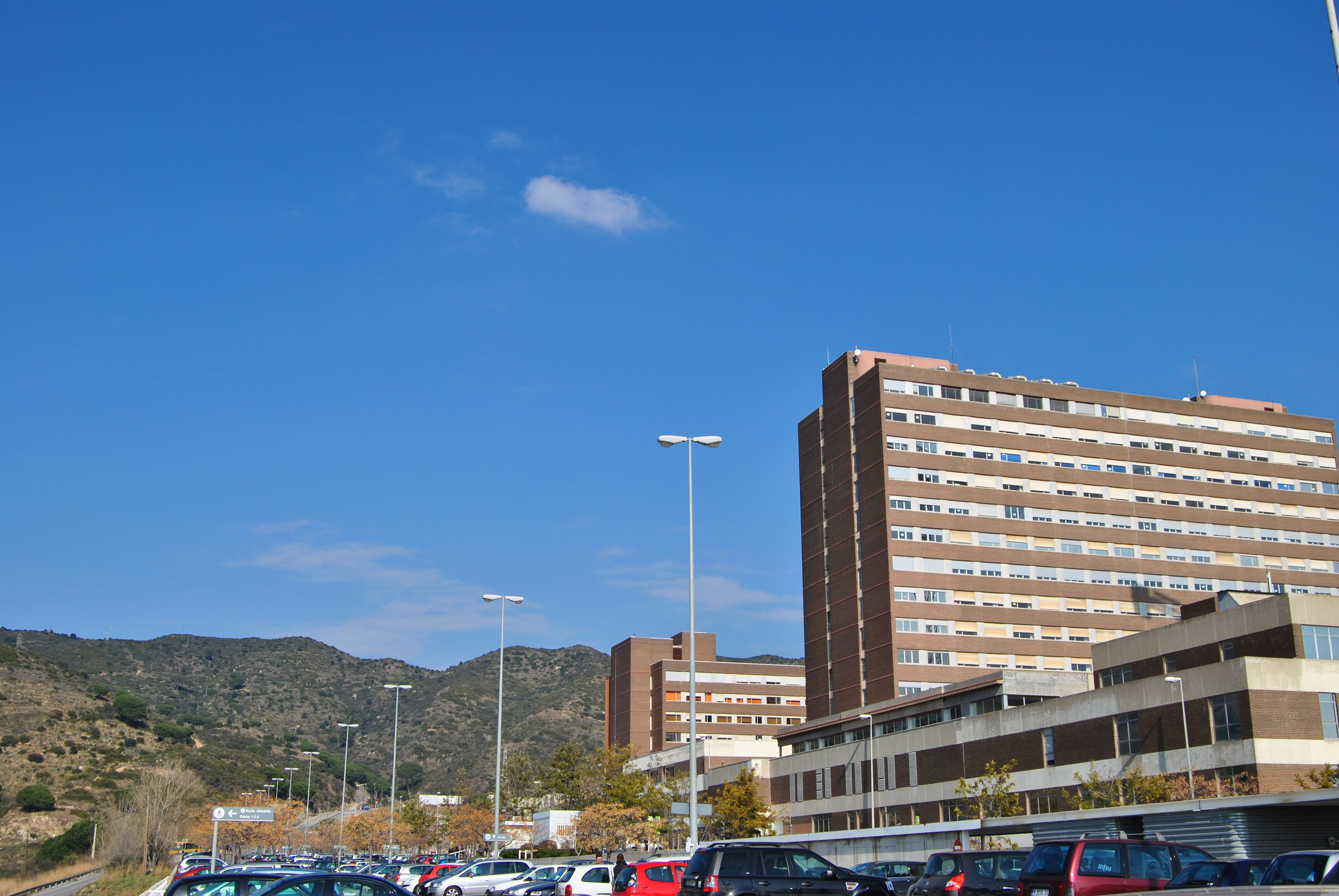 Badalona Hospital